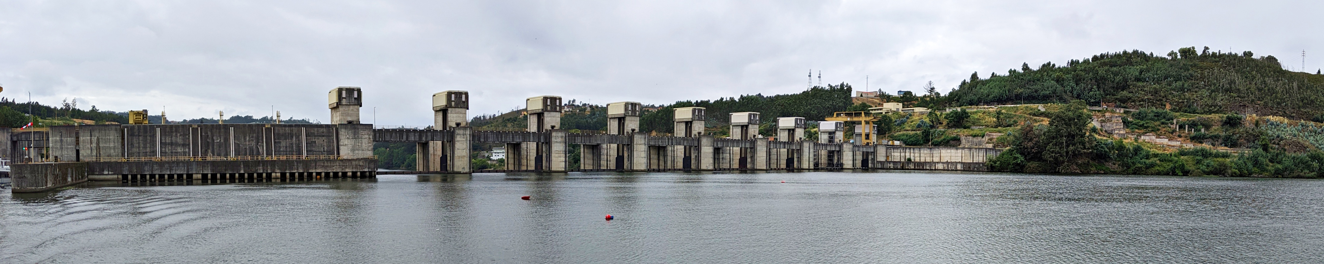 Crestuma-Lever Dam panoramic view from a boat on its reservoir on the Douro